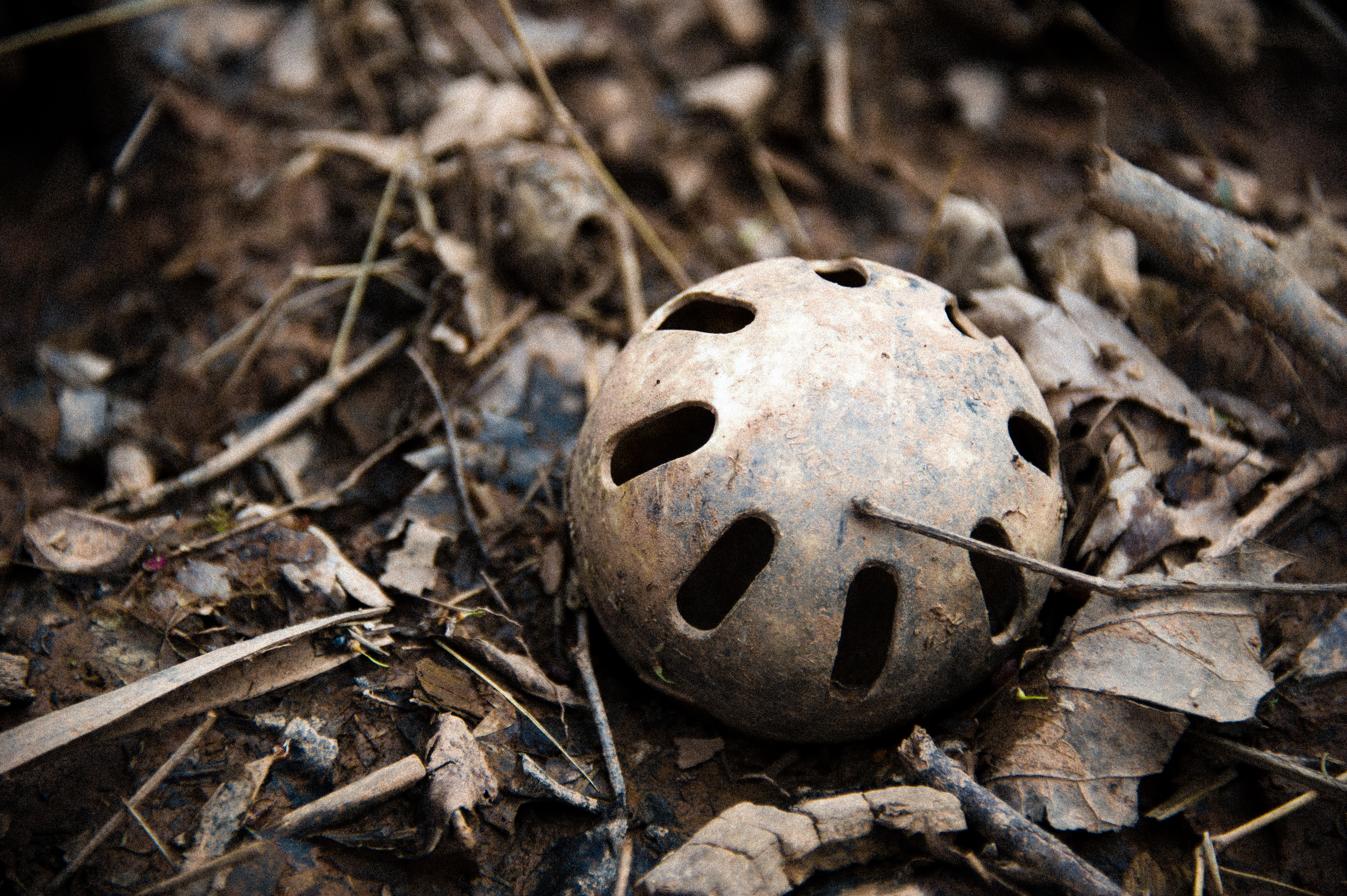 Whiffle Ball